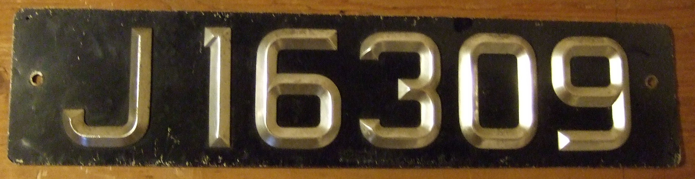 A license plate from Jersey, 1960's or earlier. Heavy chrome numbers on steel.